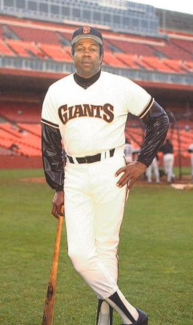 Professional baseball manager Frank Robinson